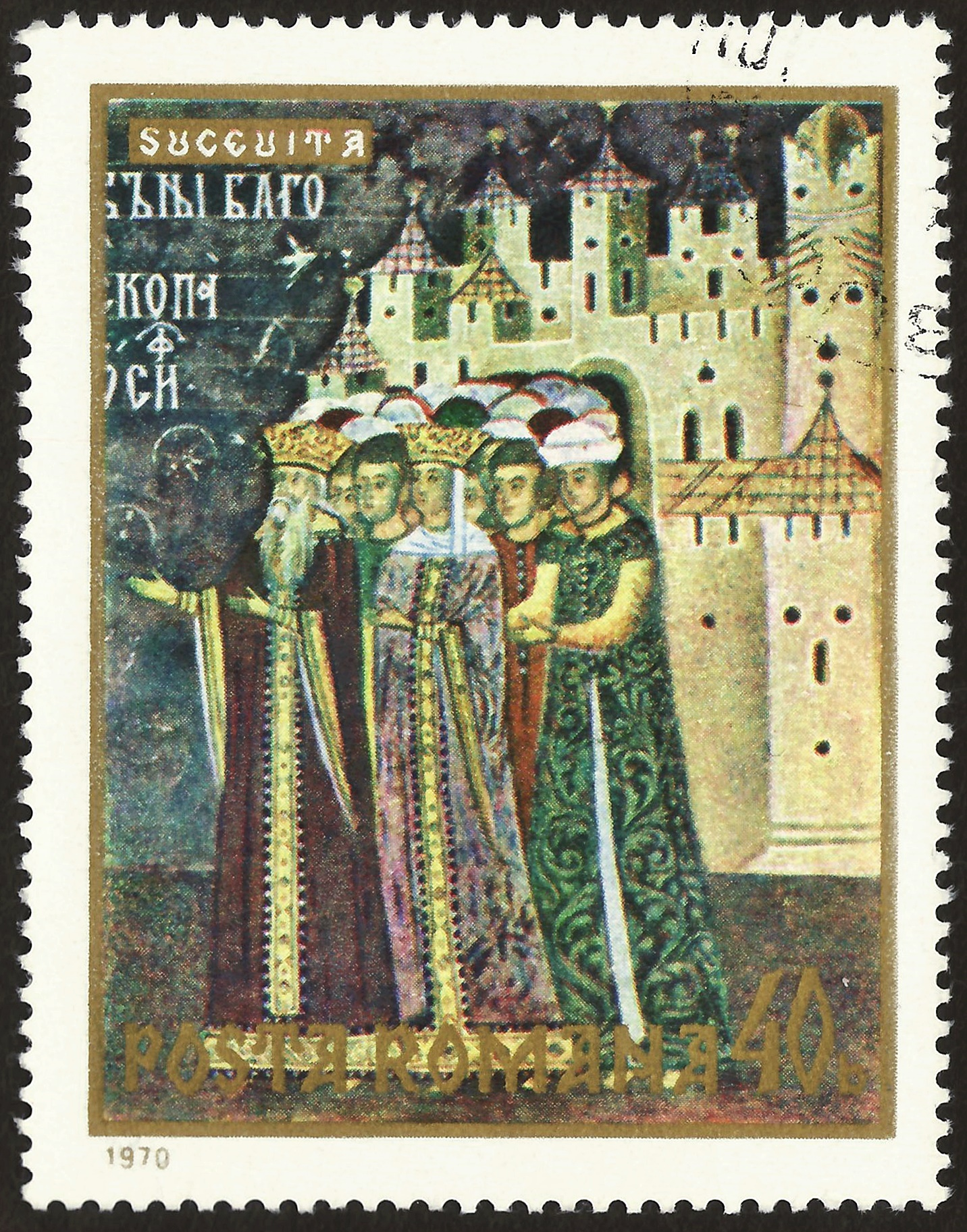 Stamp of Romania; 1970; commemorative stamp of the issue "Frescos from Romanian Monasteries"; stamp is showing a fresco from the "Sucevita Monastery" in northeast Romania at the village Rădăuți (German name: "Radautz") at the banks of the river Sucevița River; The stamp motive shows the fresco painting "Alexander the Good with his family" from the "Church of the Resurrection of Christ" of this monastery.; meant is Alexander I, King of Moldavia (reign 1400-1432), called "The Good". Under his entourage is also Lady Ana (identical with his wife Rymgaila...?).; The town in the background is not assignable (Constantinople at night...?).; stamp postmarked Note: The monastery was built in 1585 under the rule of the Princes Ieremia Movila, Gheorge Movila, and Simion Movila. Contemporary this monastery belongs to the Eastern Orthodox Church. Stamp: Michel: No. 2858; Yvert & Tellier: No. 2527; Scott: No. 2158 Color: multicolored with gold Watermark: none Nominal value: 40 b (Bani) Postage validity: from 29 June 1970 until ? Stamp picture size (printed area of a single stamp without year line): 36.5 x 47.5 mm